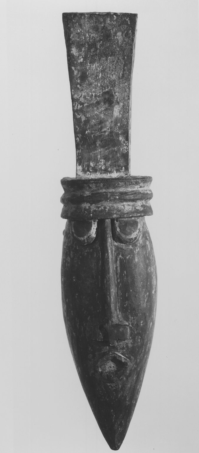 Water Spirit Mask (Igbo)